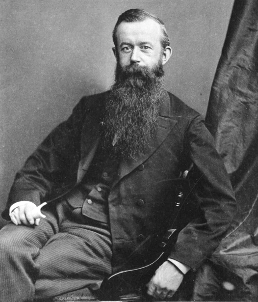 Portrait of American author Edward L. Wilson (1838-1903)